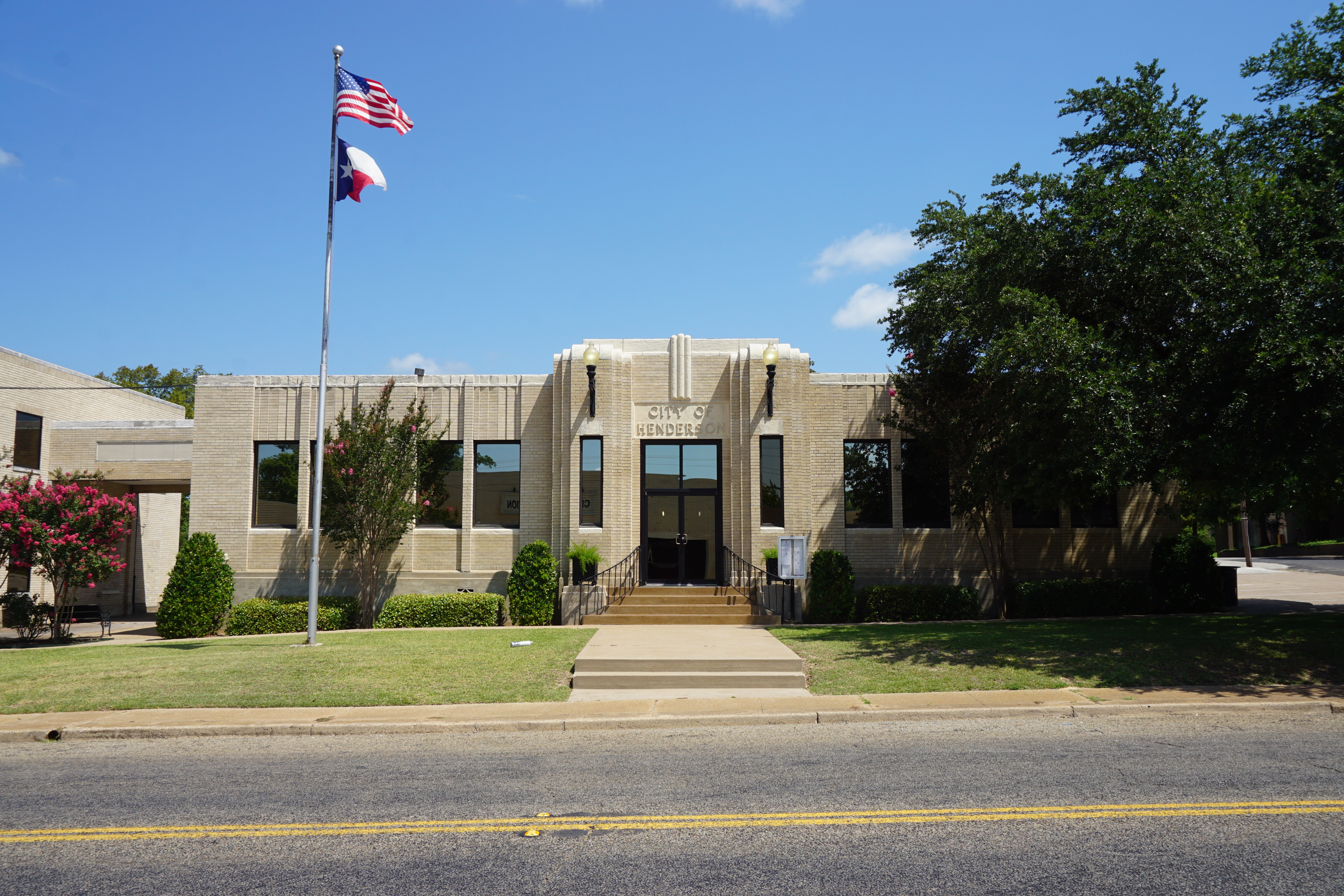 City Hall in Henderson, Texas (United States).